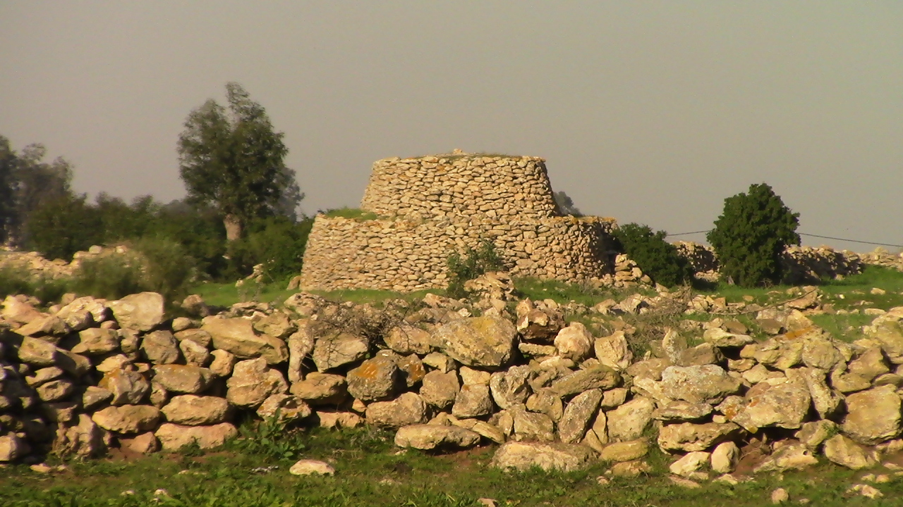 A Tazota at the south of the city of el-Jadida, Morocco